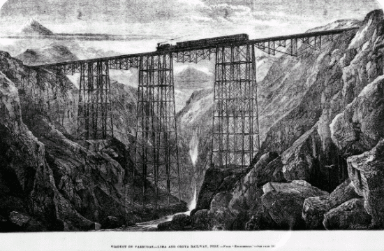 Aroya Railway bridge verruga